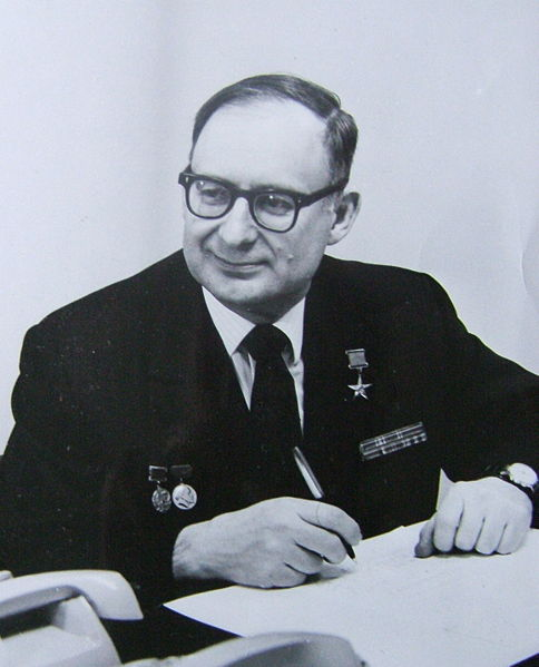 Dmitrii Evgenievich Okhotsimsky at his desk